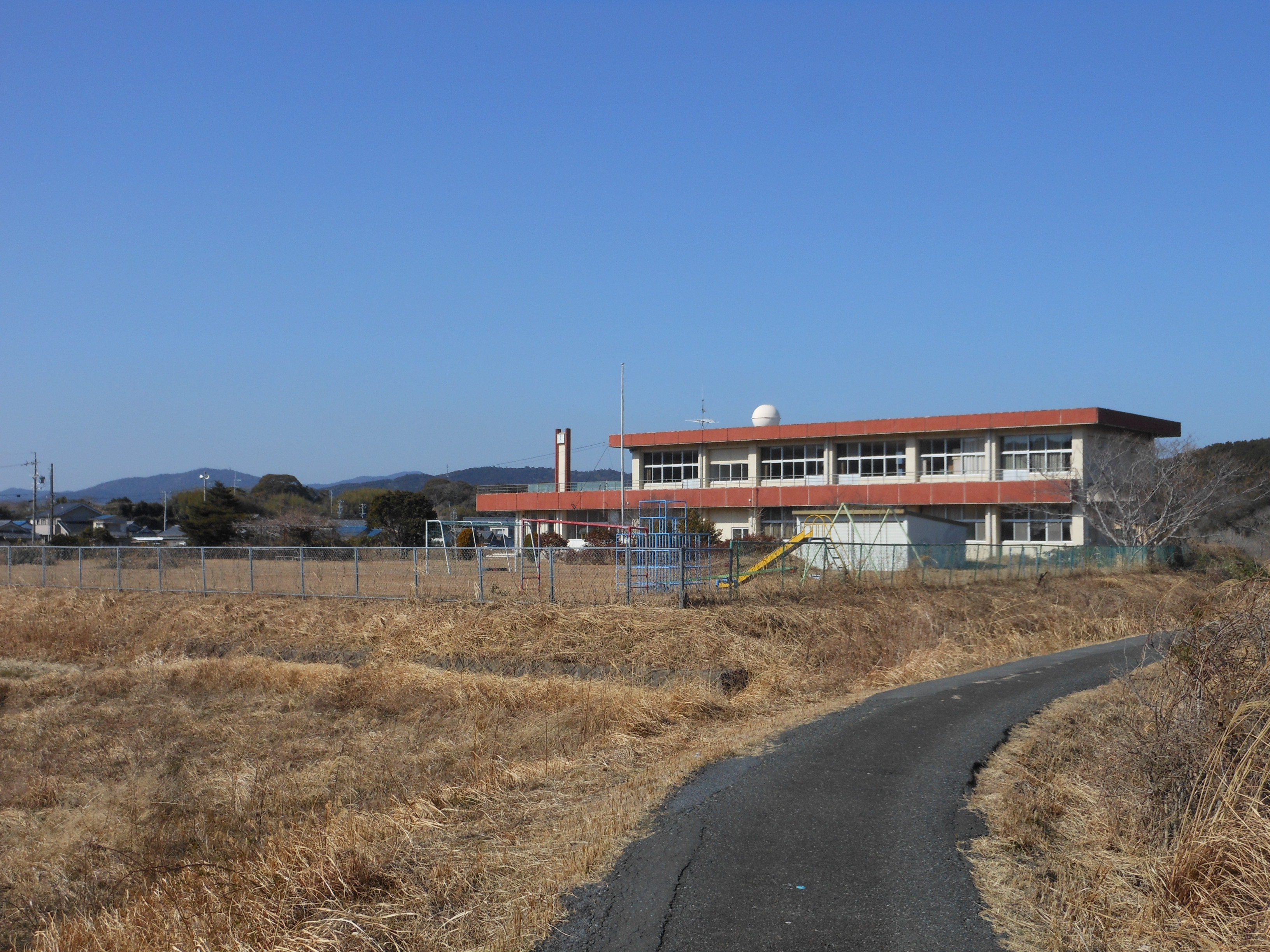 This was the Shima city Isobe elementary school Sakazaki branch school in Isobecho-Sakazaki, Shima, Mie, Japan.